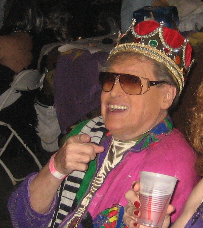 Rock & Roll musician Frankie Ford, crowned as monarch of the "Krewe du Vieux" New Orleans Carnival krewe for 2009.